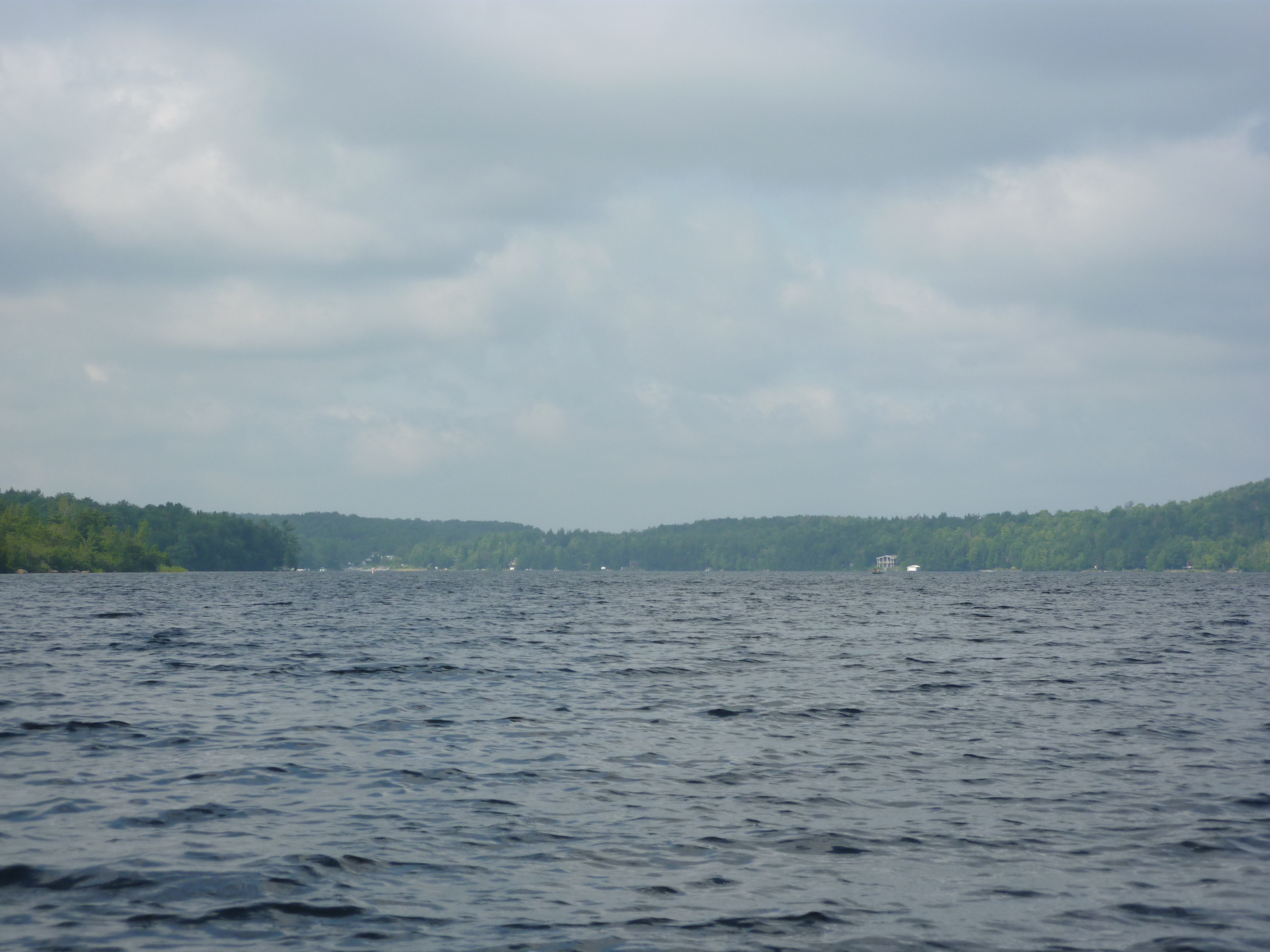 Mont-Orford National Park (Quebec, Canada) - August 2010 - Stukely Lake, looking west from the front of the beach at the national park.